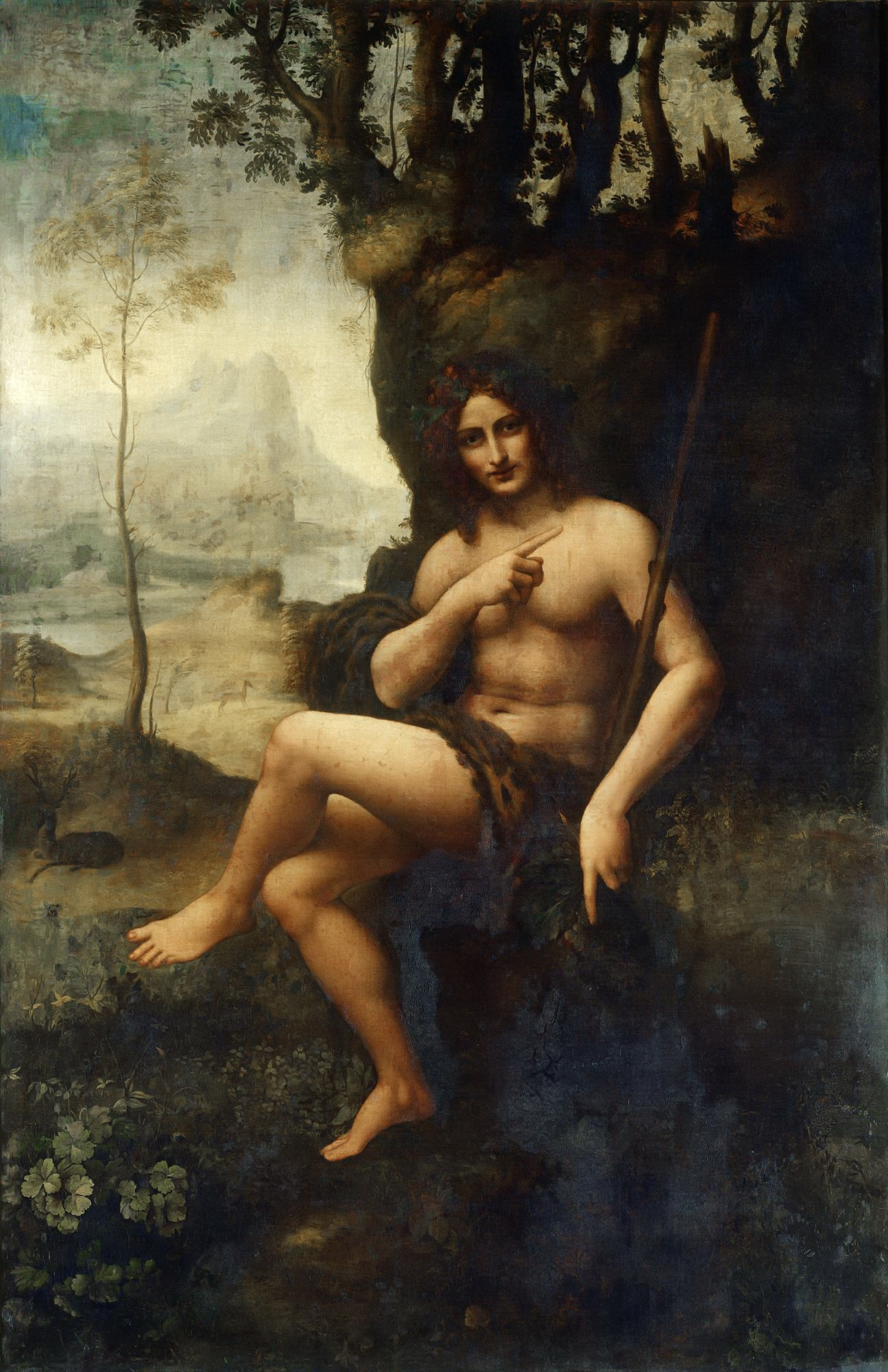 This painting was first described in the French royal inventory as Saint John the Baptist in the Desert, then at the end of the 17th century, possibly as the result of a restoration, as Bacchus in a Landscape. Like Leonardo's half-length portrait Saint John the Baptist, it is a syncretic work. The index finger pointing upward toward a divine sign and the deer are Christian symbols. The thyrsis, the crown of vine leaves or ivy, the bunch of grapes, and the panther skin are attributes of Bacchus.